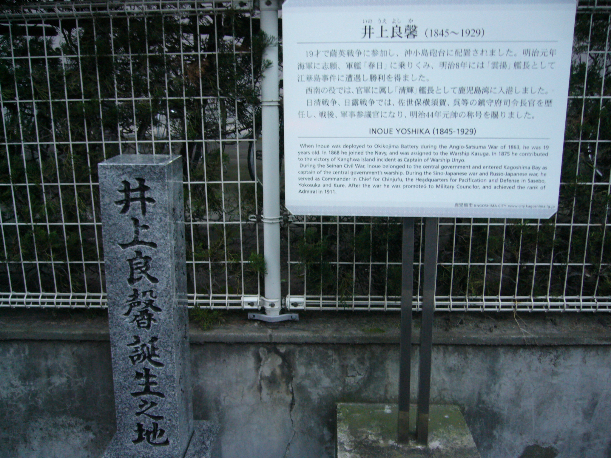 Monument of Yoshika Inoue as birthplace